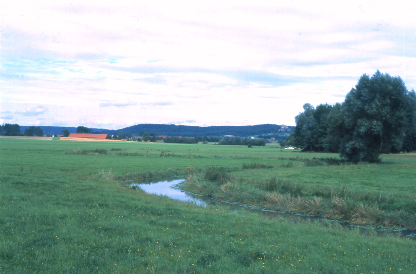 young river Altmuehl, view towards Frankenhoehe range and Colmberg castle